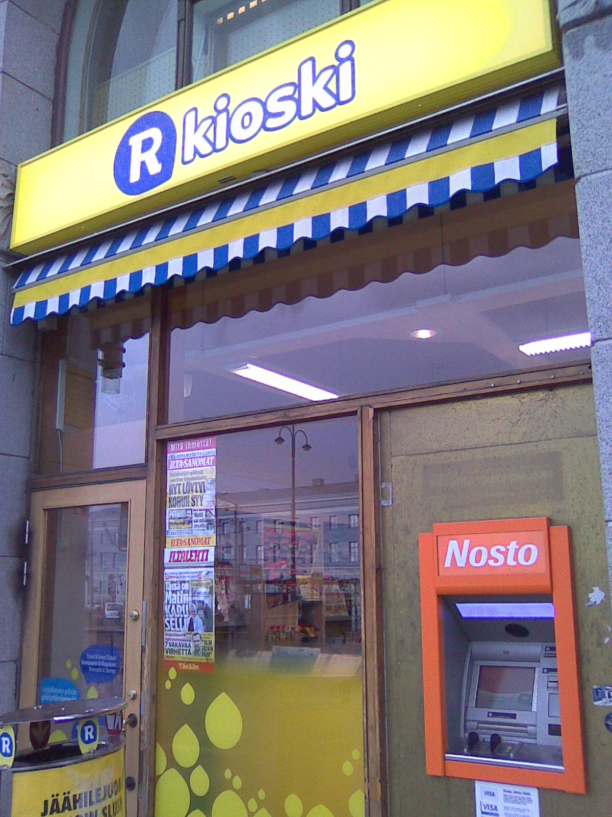 R-Kioski in North Esplanade in Helsinki, with new logo.